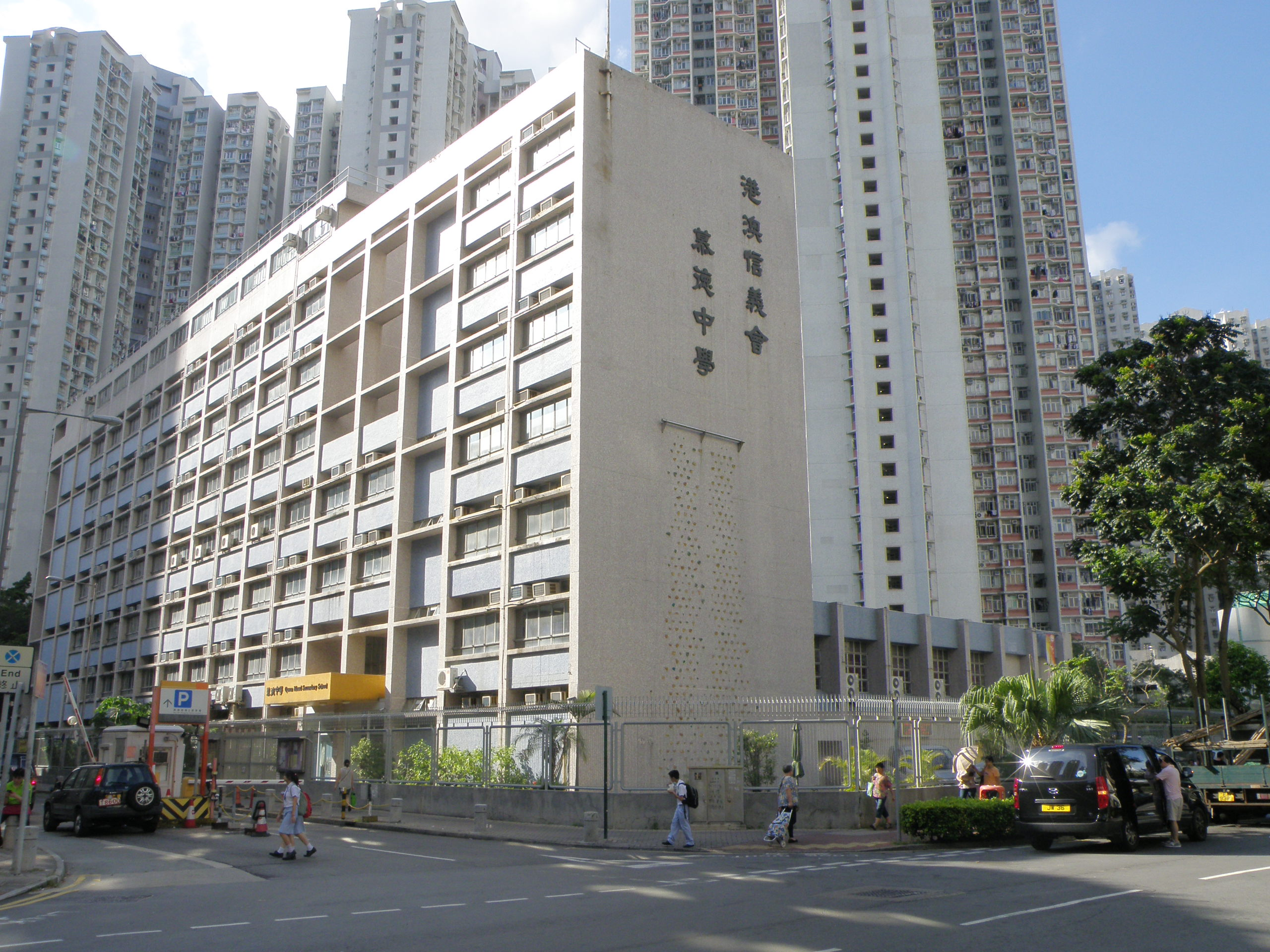 H.K.M.L.C. Queen Maud Secondary School in Tseung Kwan O, Hong Kong.